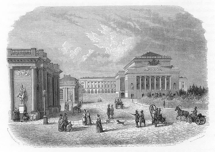 Book Illustration from the "Voyages and travels, or, Scenes in many lands : with eight hundred and fifty illustrations on wood and steel of views from all parts of the world, comprising mountains, lakes, rivers, palaces, cathedrals, castles, abbeys, and ruins, with original descriptions by the best authors". Edited by Leo de Colange. — Boston E. W. Walkers & Co, 1887. Artist Alexandre de Bar (1821-1901). Engraving drawn by Hotelin, engraved by Alexandre Hurel. Alexandrinsky theatre is one of the most famous in St. Petersburg, its repertoire, traditionally consisting of Russian and foreign classics' performances, lately has been replenished by a number of ballets. The famous names of V. Komissarghevskaya, V. Meierhold, B. Freindlich are connected with this theatre. Theatre is located on Ostrovsky square close to the Nevsky prospect; its architectural ensemble created to Carlo Rossi's project, is one of the most beautiful and exquisite St. Petersburg Russian classical style ensembles.